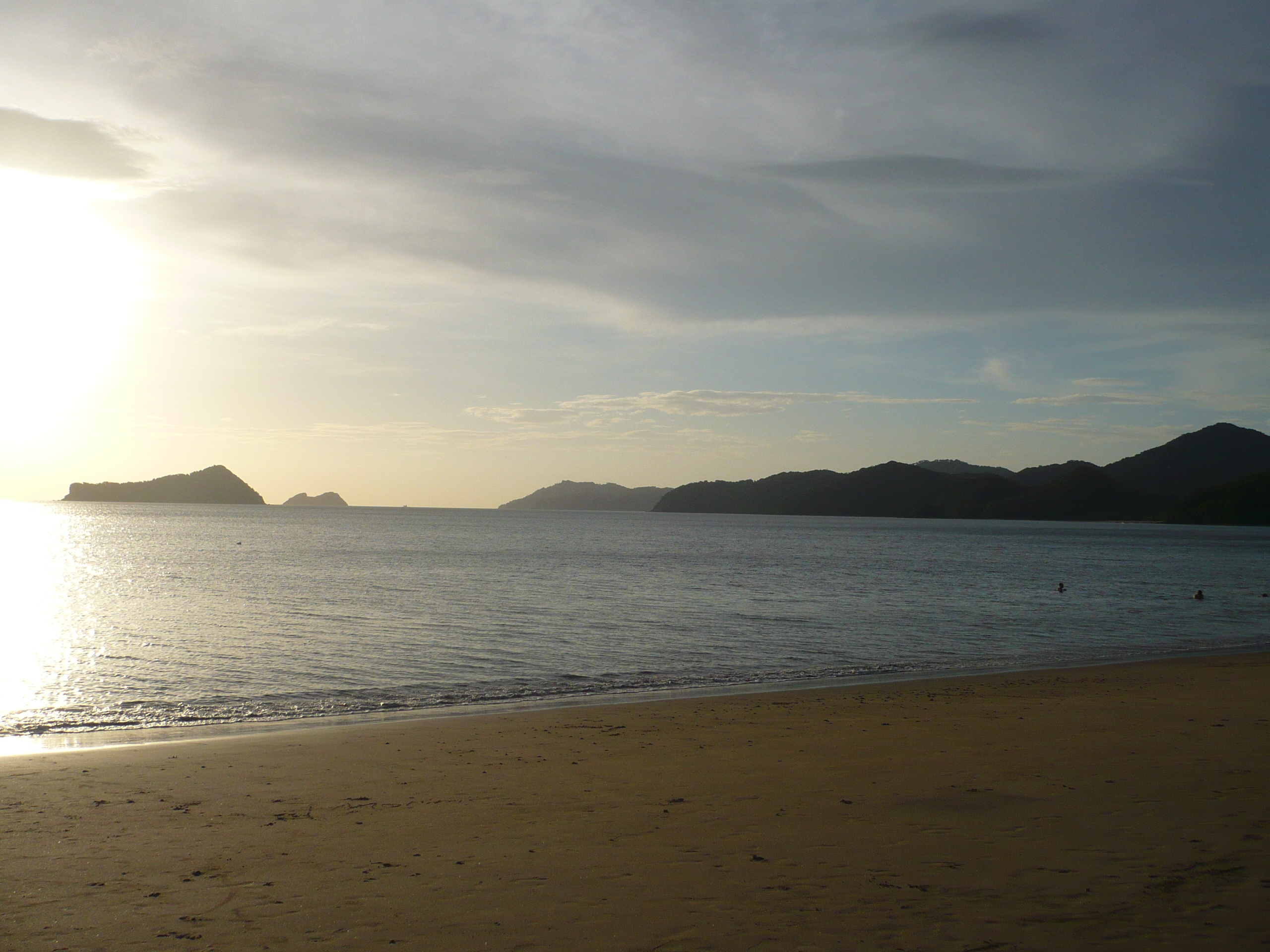 Bahia Salinas